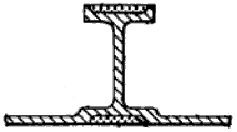 Cross-sectional view of flange section of isogrid panel